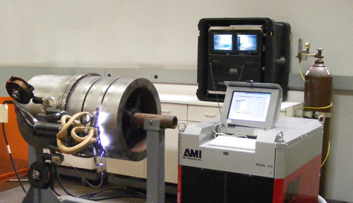 An AMI Narrow Groove welding system with Remote Vision.